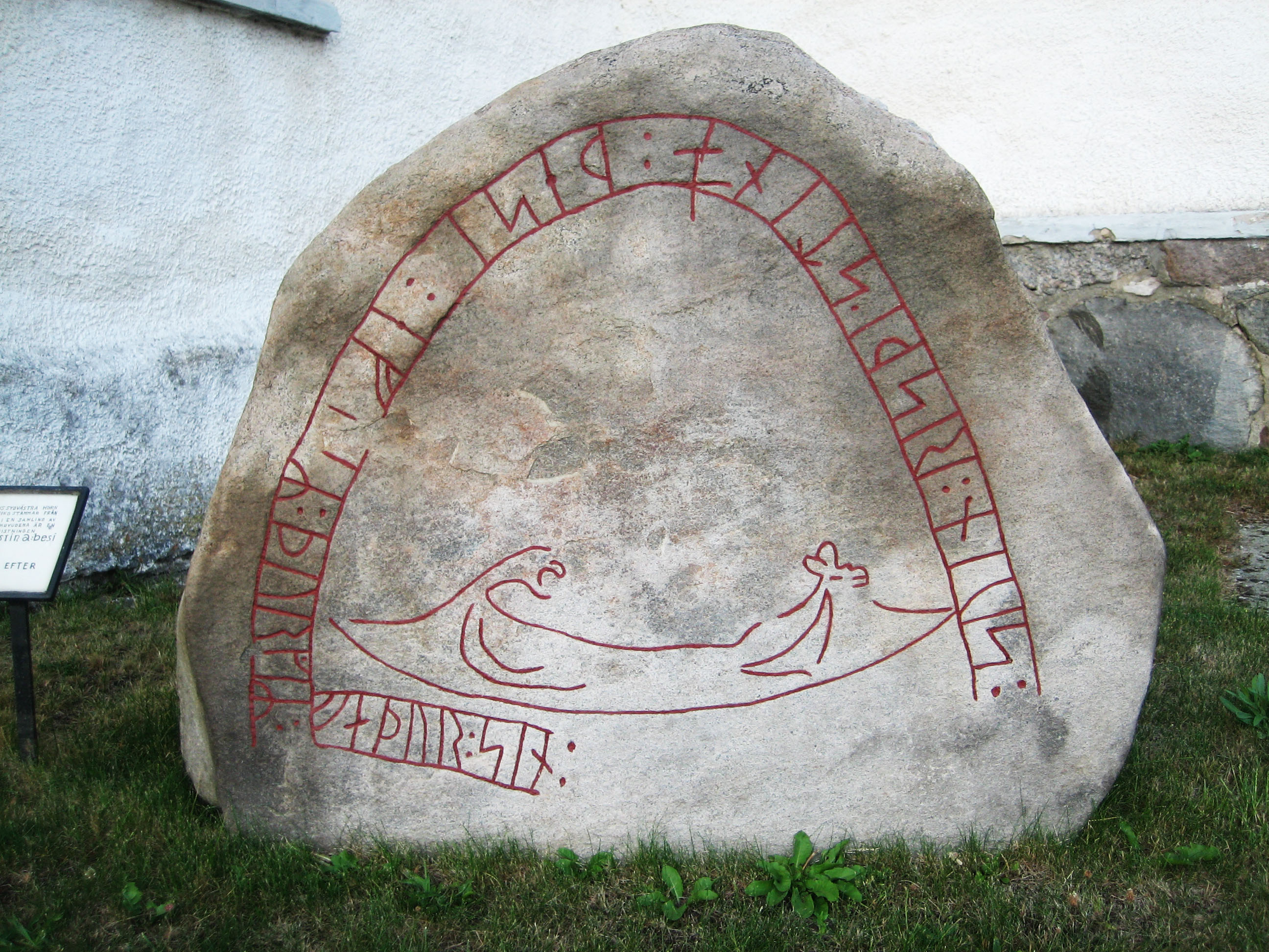 The runestone Holmbystenen, DR 328, in Holmby, Eslövs kommun, Sweden. Photo by the uploader.